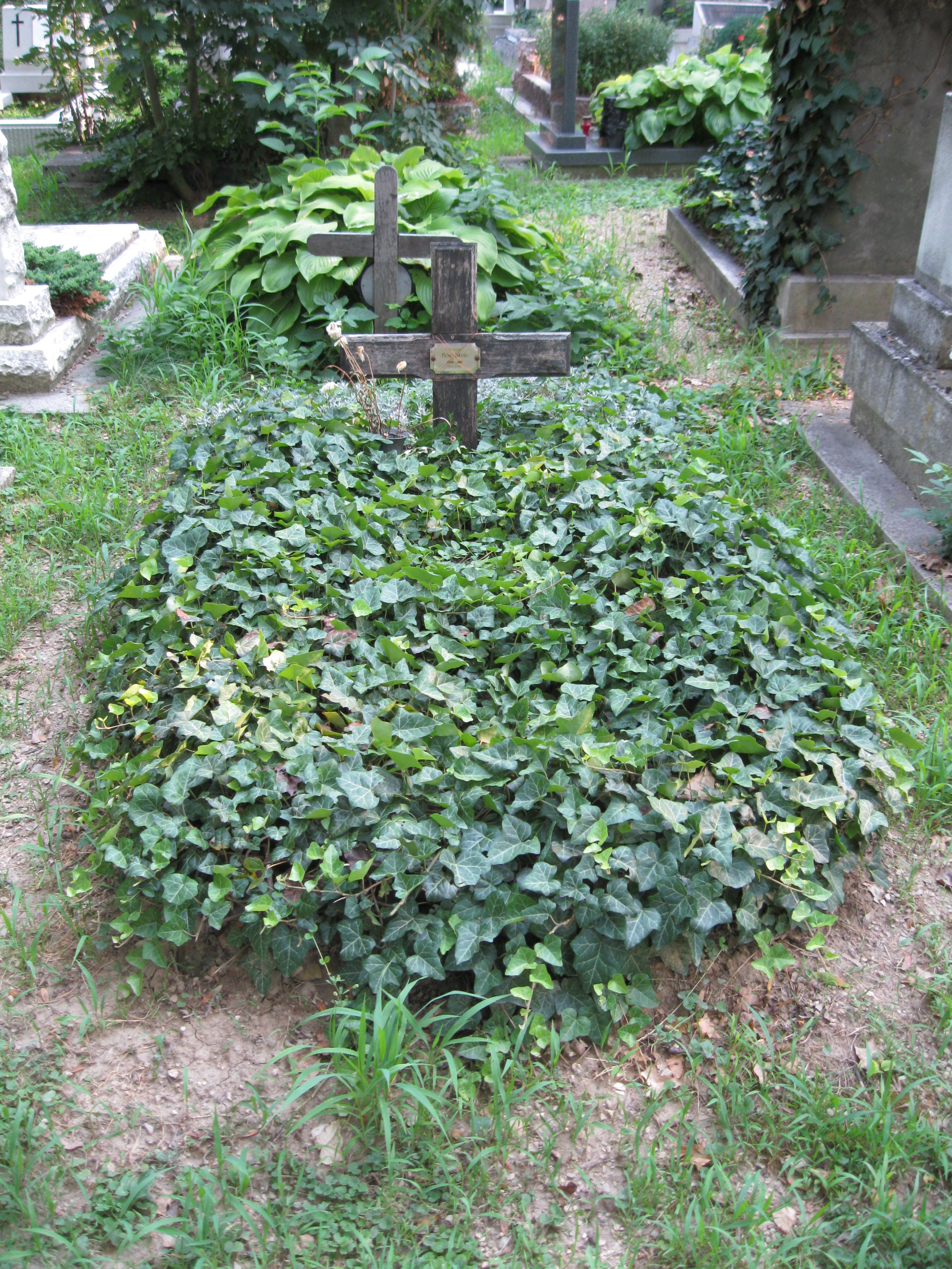 Tomb of István Bóna in Farkasréti Cemetery, Budapest District XII